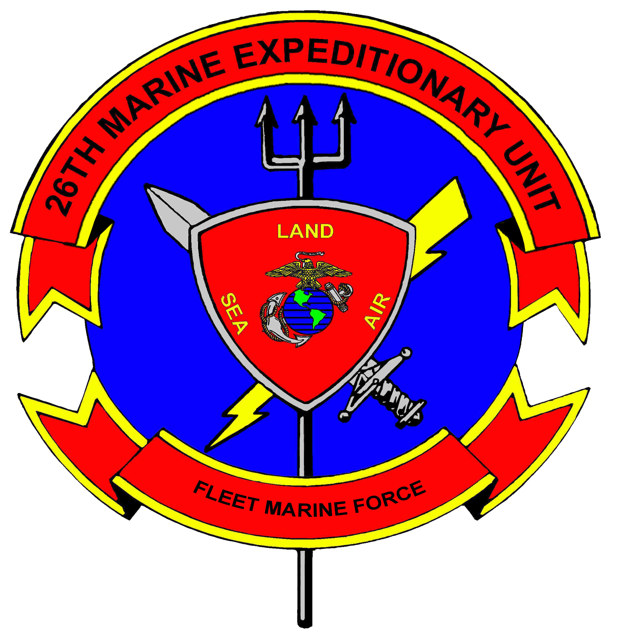 Most current iteration of 26th Marine Expeditionary Unit unit insignia.